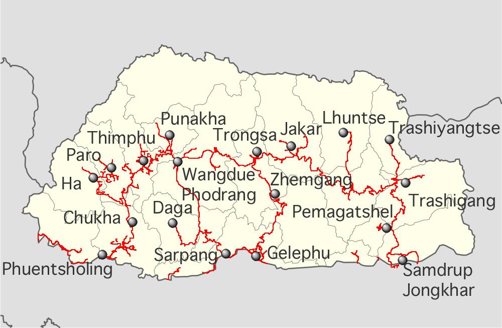 Bhutan highways and cities labeled location map